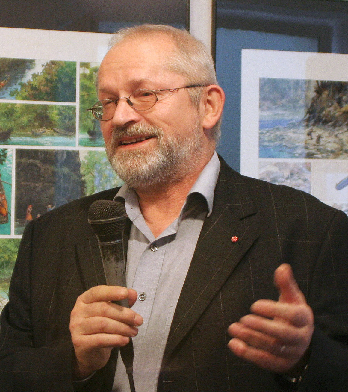 Grzegorz Rosiński at opening of exposition of his own work at International Festival of Comics in Łódź, 6th October 2007.